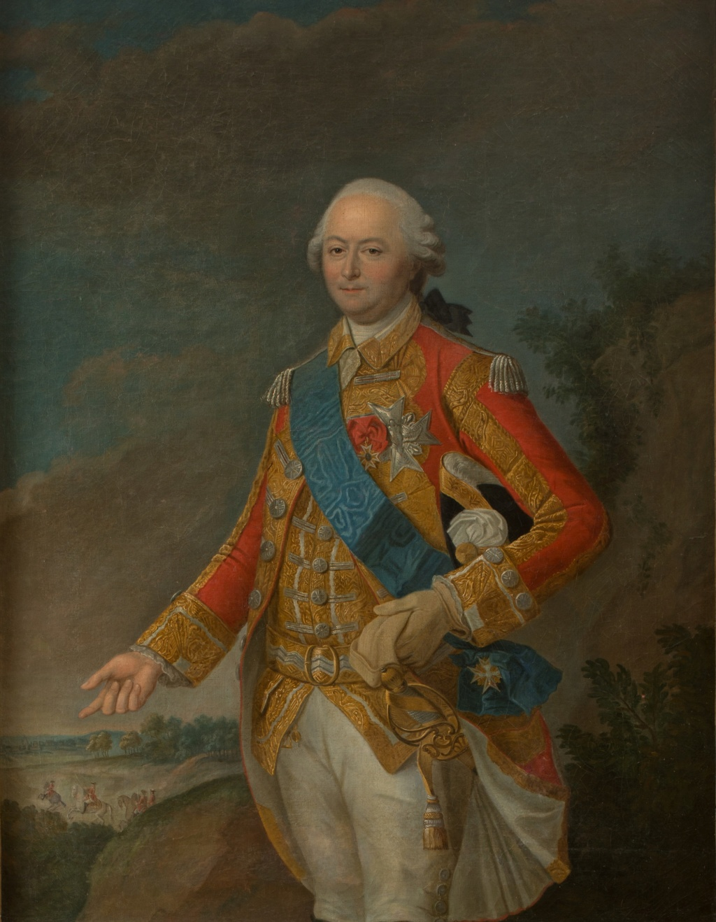 Emmanuel Armand de Vignerot du Plessis, duc d'Aiguillon